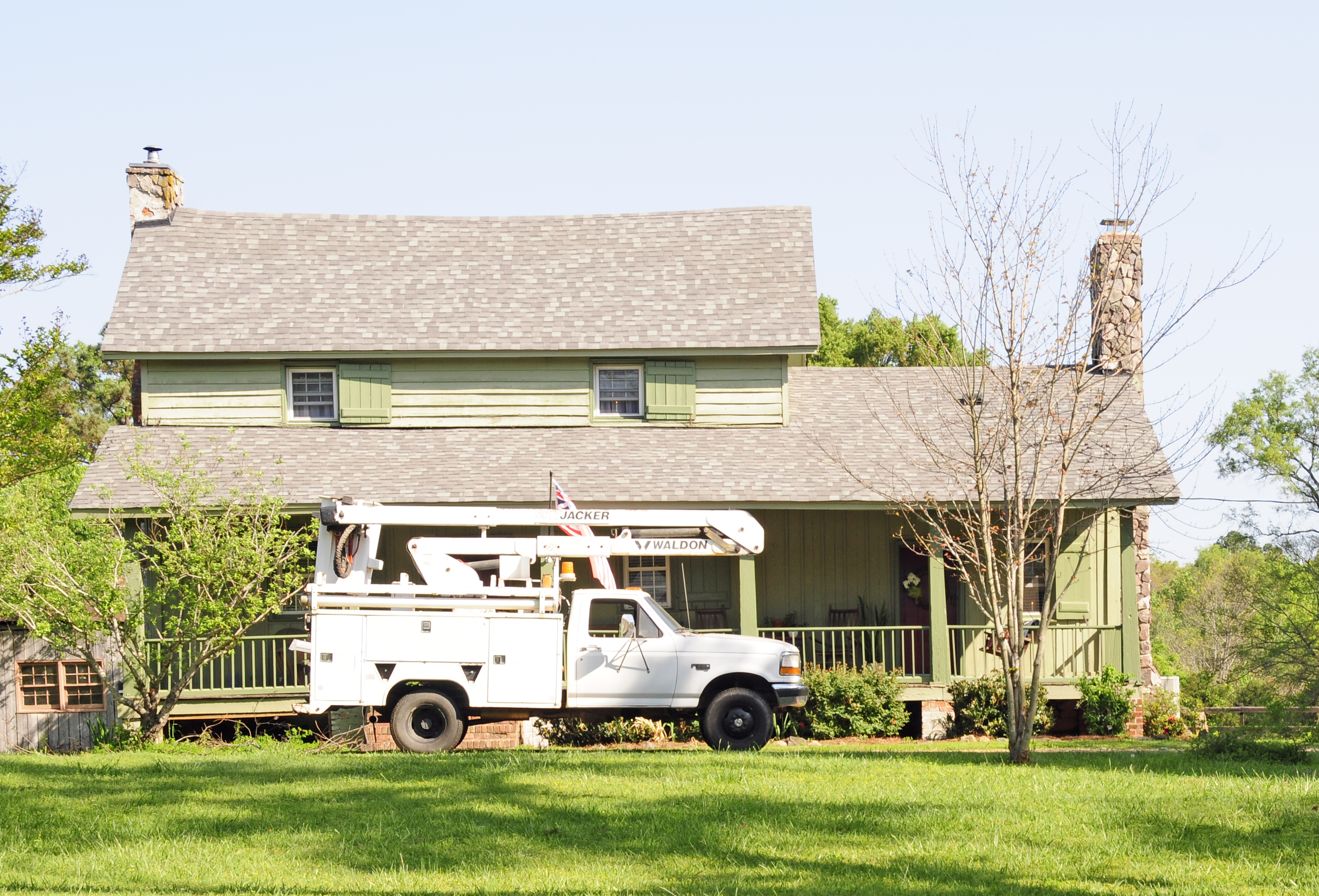 Lewis Inn